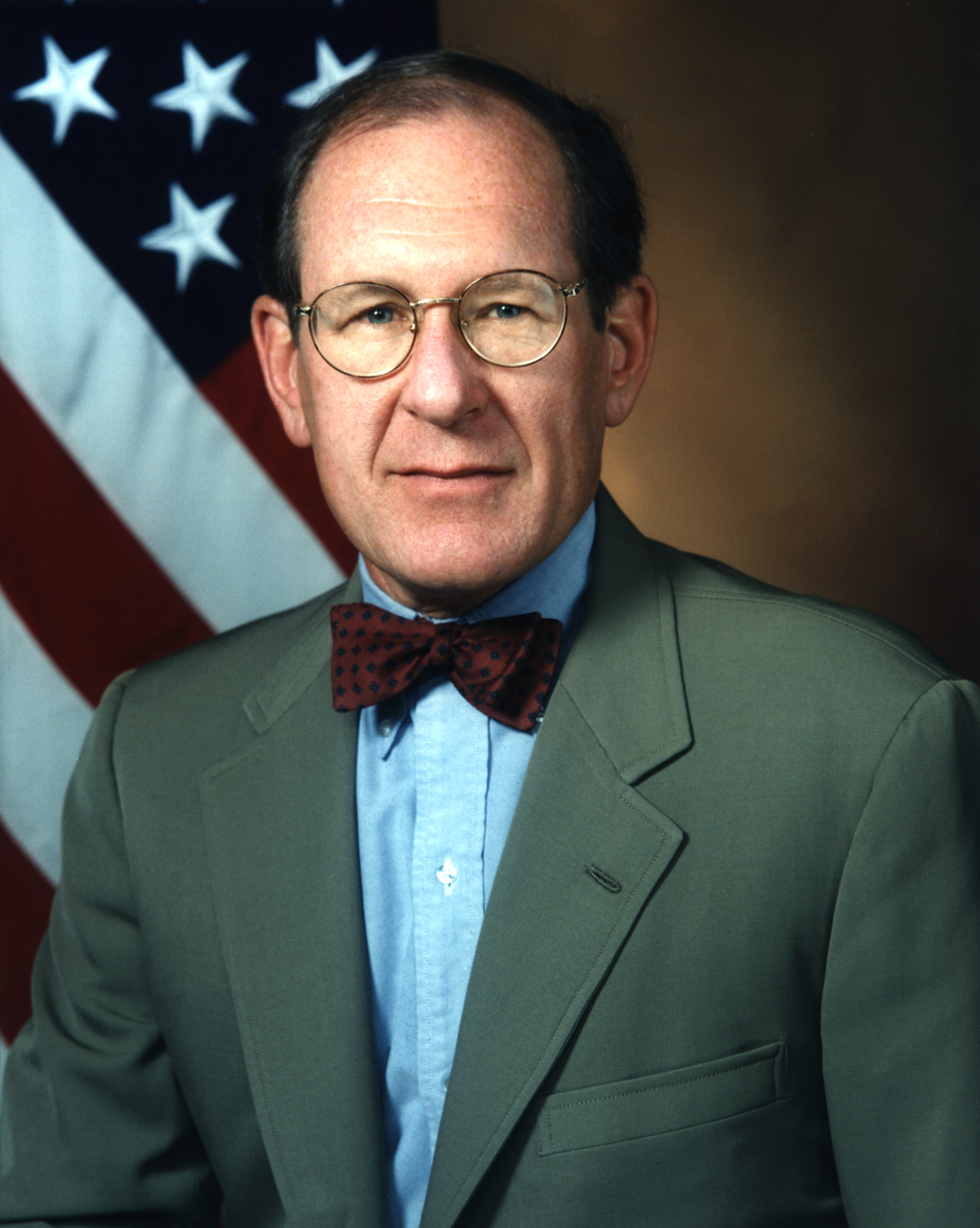 Former Assistant Secretary of Defense (Public Affairs) Kenneth H. Bacon